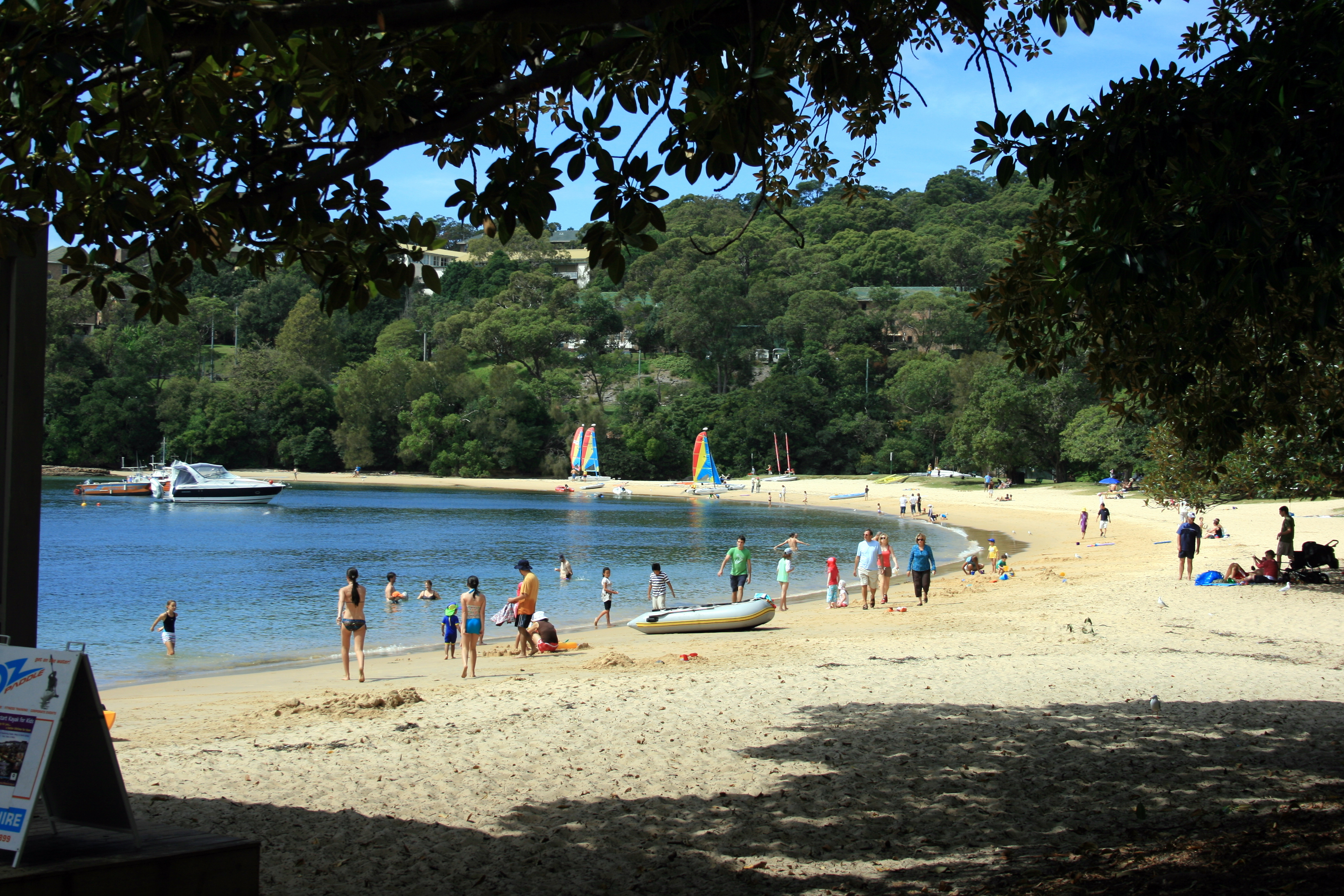 Southern end of Balmoral Beach